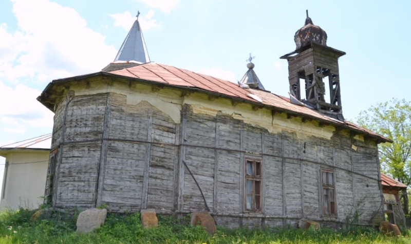 Wooden church in Albulești, Mehedinți county, Romania